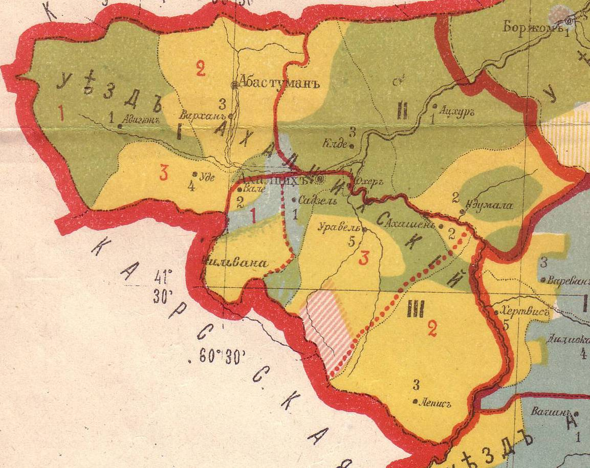 Ethnographic map of the Akhaltsikhe uyezd